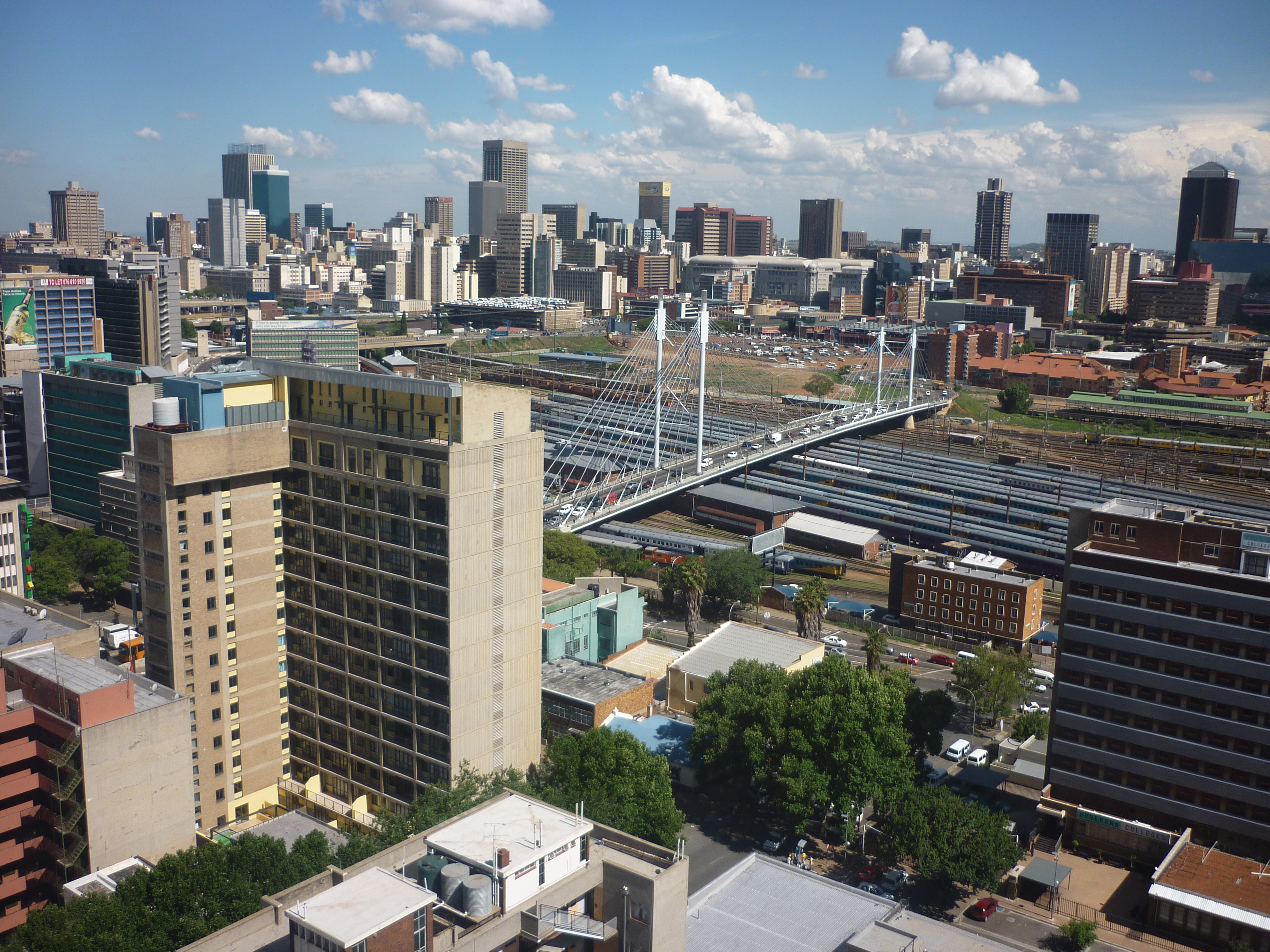 looking out over Johannesburg from Braamfontein. Nelson Mandela bridge over the train station. CBD in the background